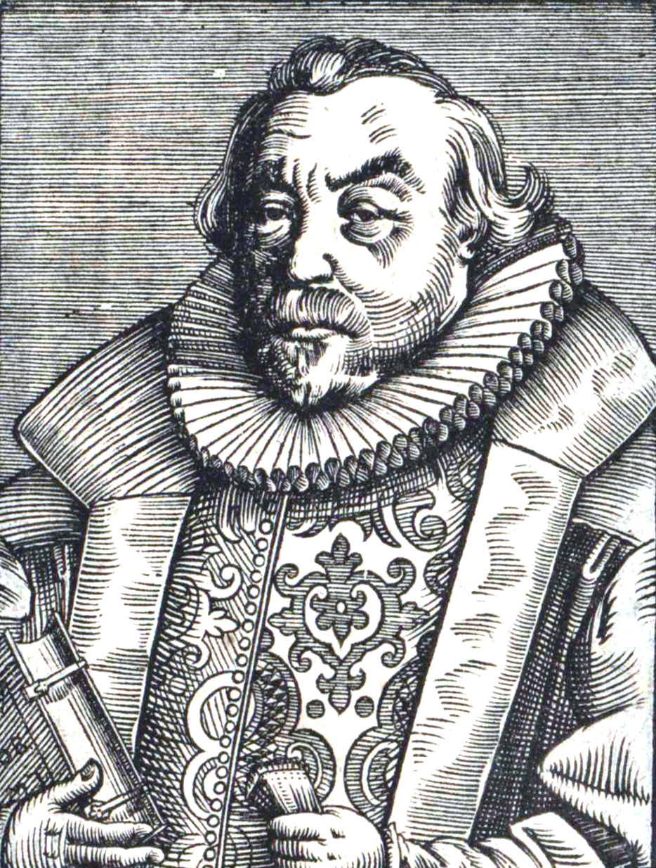 Thomas Weinrich (1588-1629), German protestant Theologian